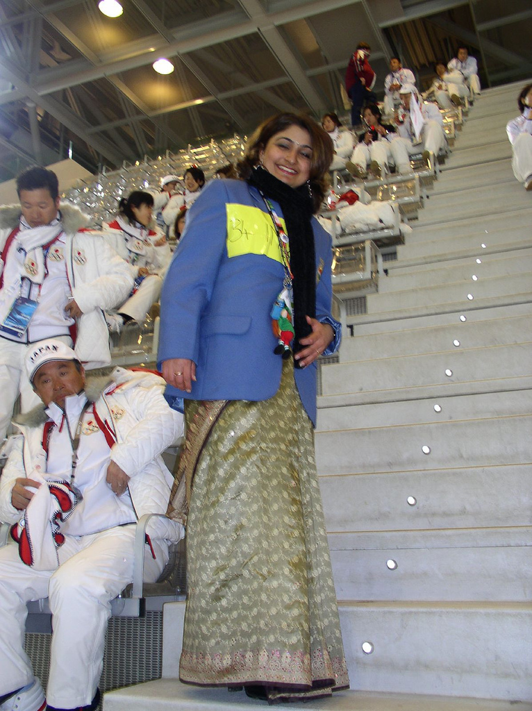 The Indian Flag bearer befor the parade of the Closing Ceremony of the Torino2006 Winter Olympic Games.AHUJA Neha, indian Flag Bearer